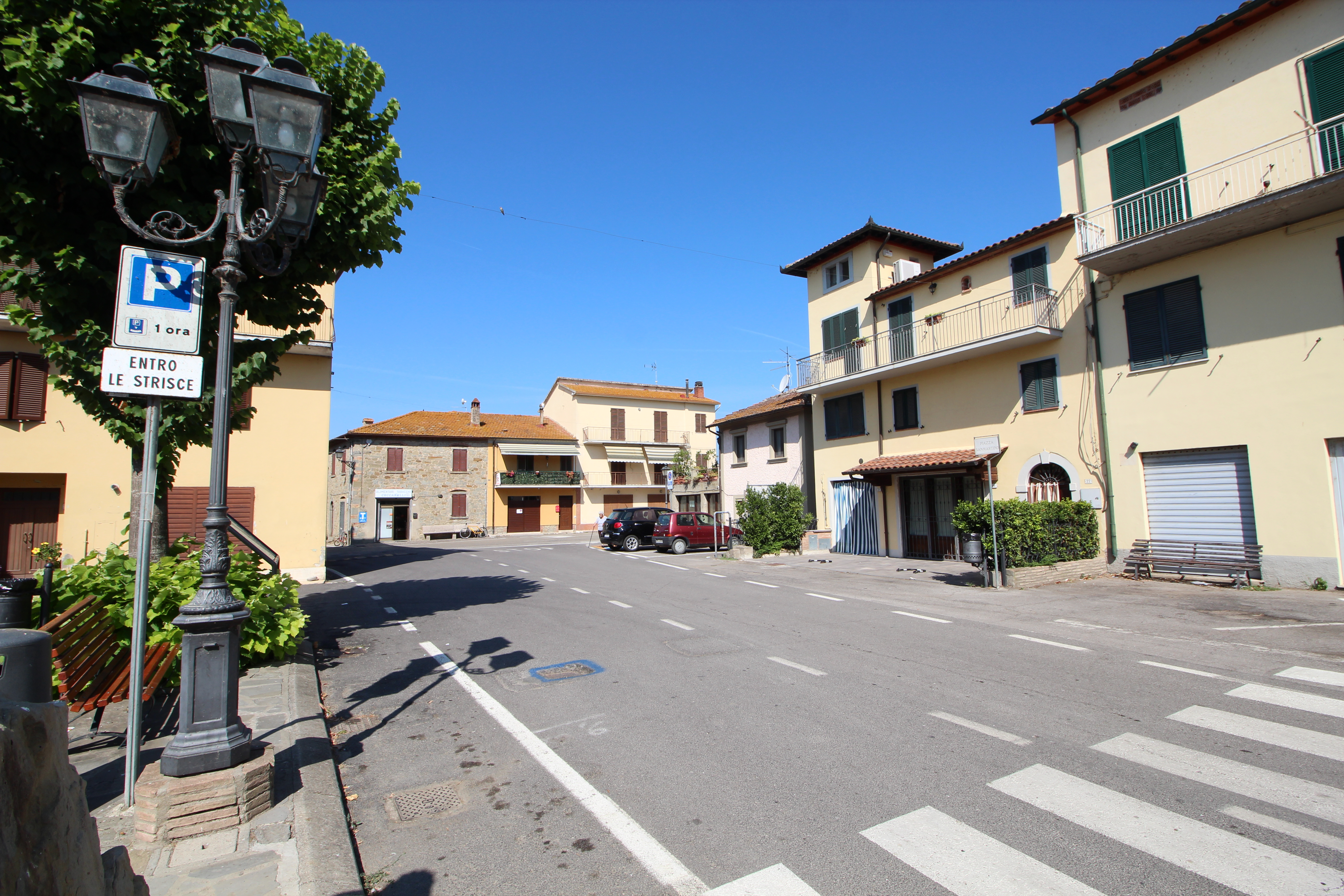 Borghetto (Borghetto di Tuoro), hamlet of Tuoro sul Trasimeno, Province of Perugia, Umbria, Italy